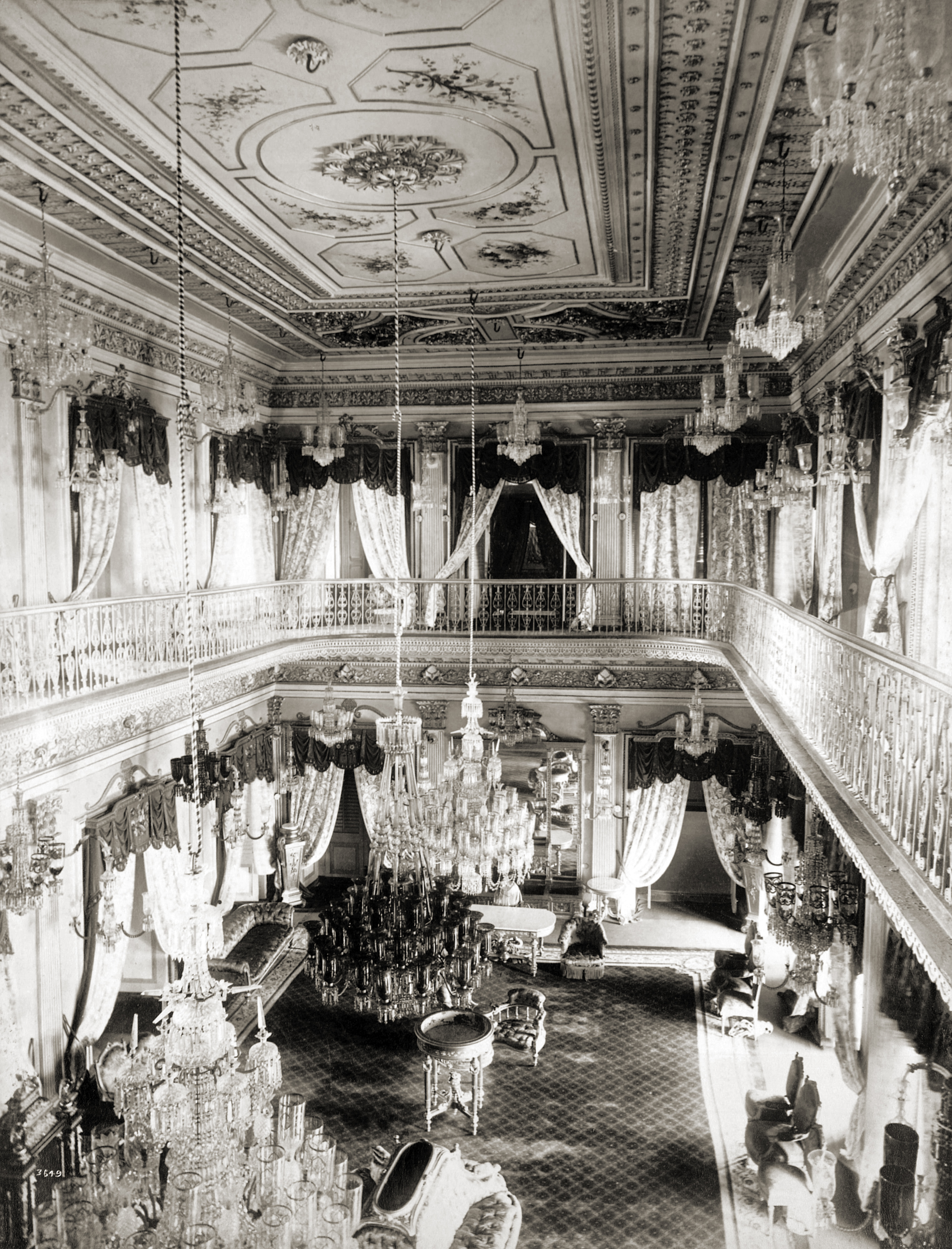 Interior view of the Chaumhalla Palace at Hyderabad, photographed by Deen Dayal in the 1880s, from the Curzon Collection: 'Views of HH the Nizam's Dominions, Hyderabad, Deccan, 1892'. The Chaumhalla Palace was commenced in 1750 with later additions. The Palace complex is made up of four palaces - the Afzal Mahal, Mahtab Mahal, Tahniyat Mahal and Aftab Mahal - arranged around a central courtyard garden with a marble cistern in the centre.